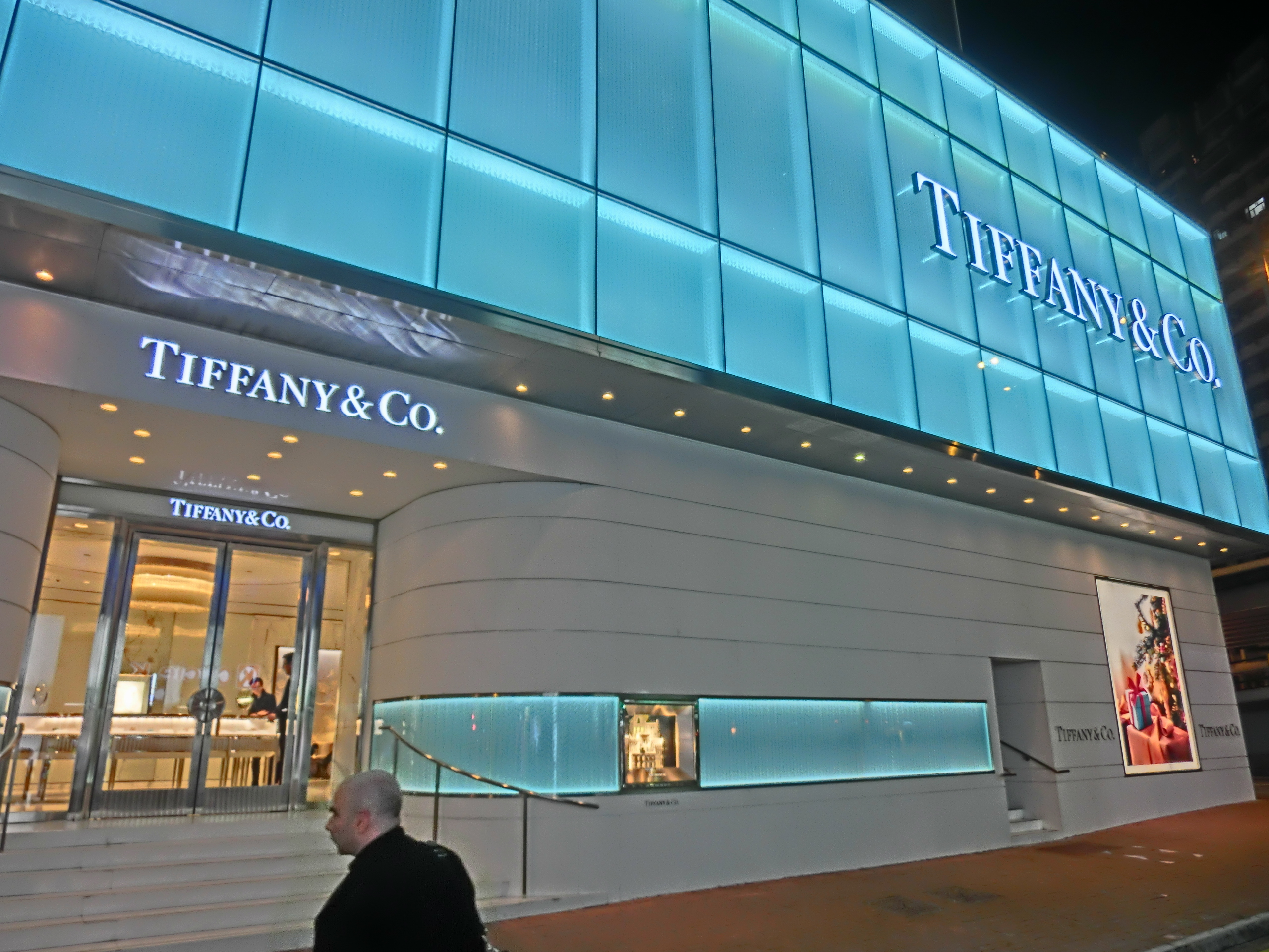 蒂芙尼公司, 時代廣場 (香港), Shop of Tiffany & Co at Times Square, Russell Street, Causeway Bay, Hong Kong